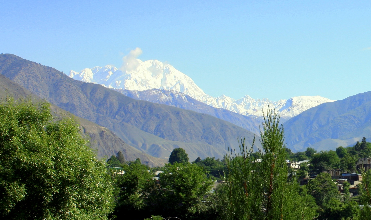 The view from our room at the Tirich Mir Hotel in Chitral, overlooking Tirich Mir, the highest mountain of the Hindukush range (7,708 m).